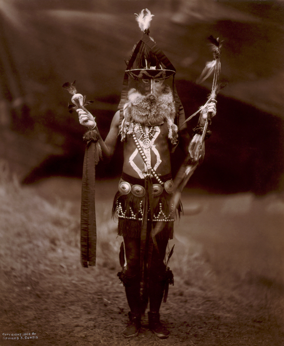 "Zahadolzhá — Navajo" (c.1904). Charlie Day, a European American trader's son, costumed as a Navajo God Impersonator, in ceremonial dress including mask and body paint.[1]